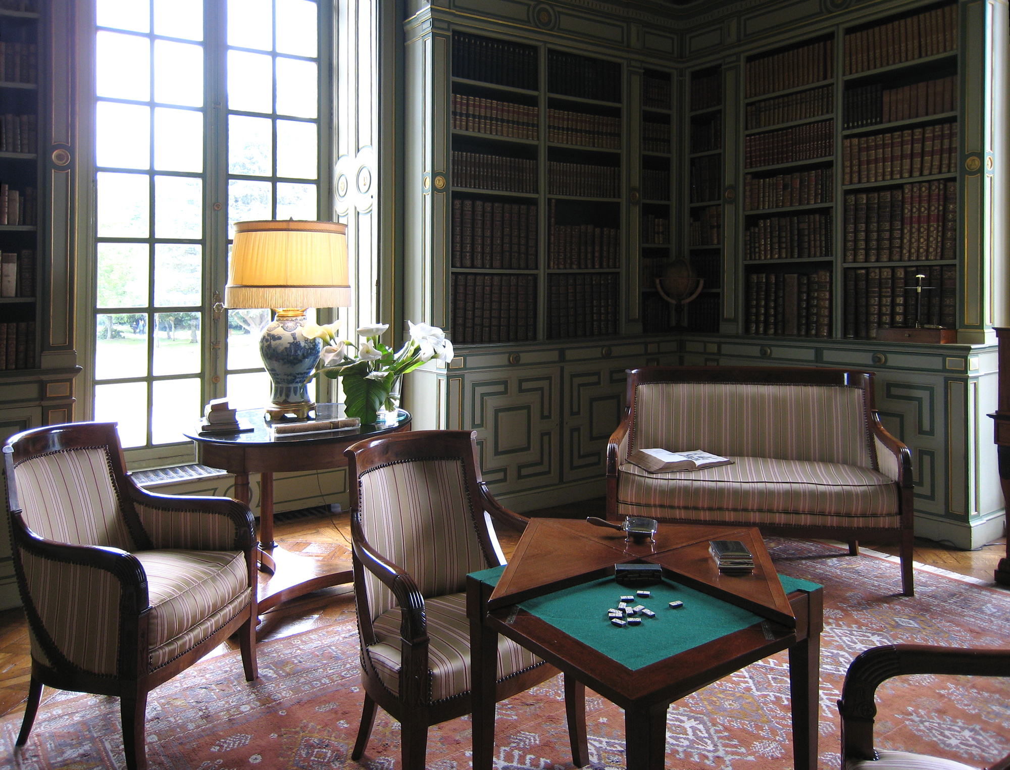 Study, Château de Cheverny, Loir-et-Cher, France